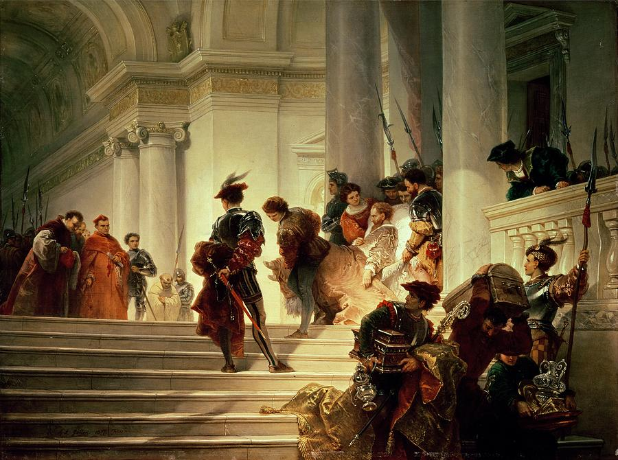 Cesare Borgia leaving the Vatican (1877) by Giuseppe Lorenzo Gatteri (18 September 1829 - 1 December 1884)